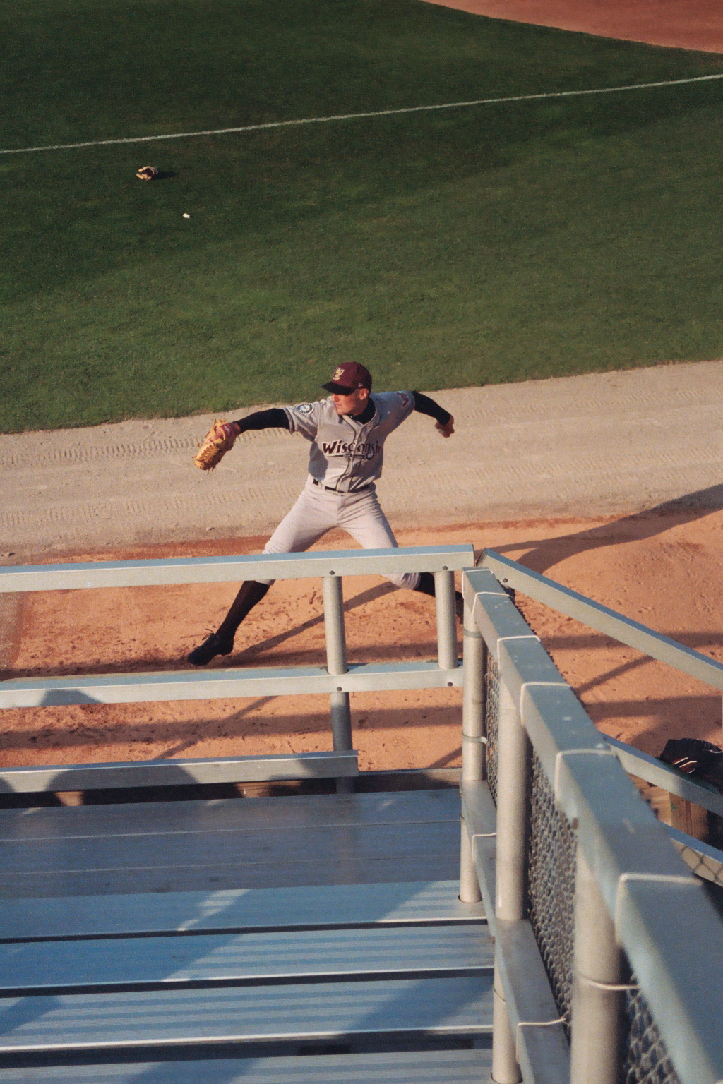 Ryan Feierabend playing for the Wisconsin Timber Rattlers in 2004.